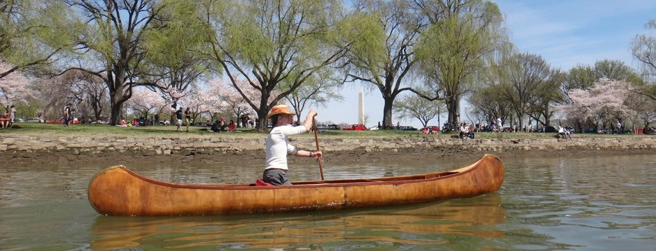 A Haskell canoe paddled in spring time at Washington D. C. Cherry blossoms in background.